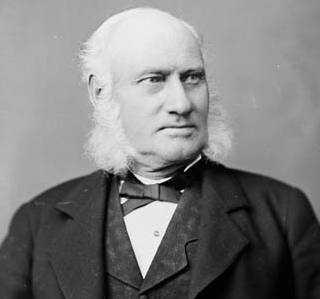 Hon. Alexander Macfarlane, (Canadian Senator) b. June 1818 - d. 1898